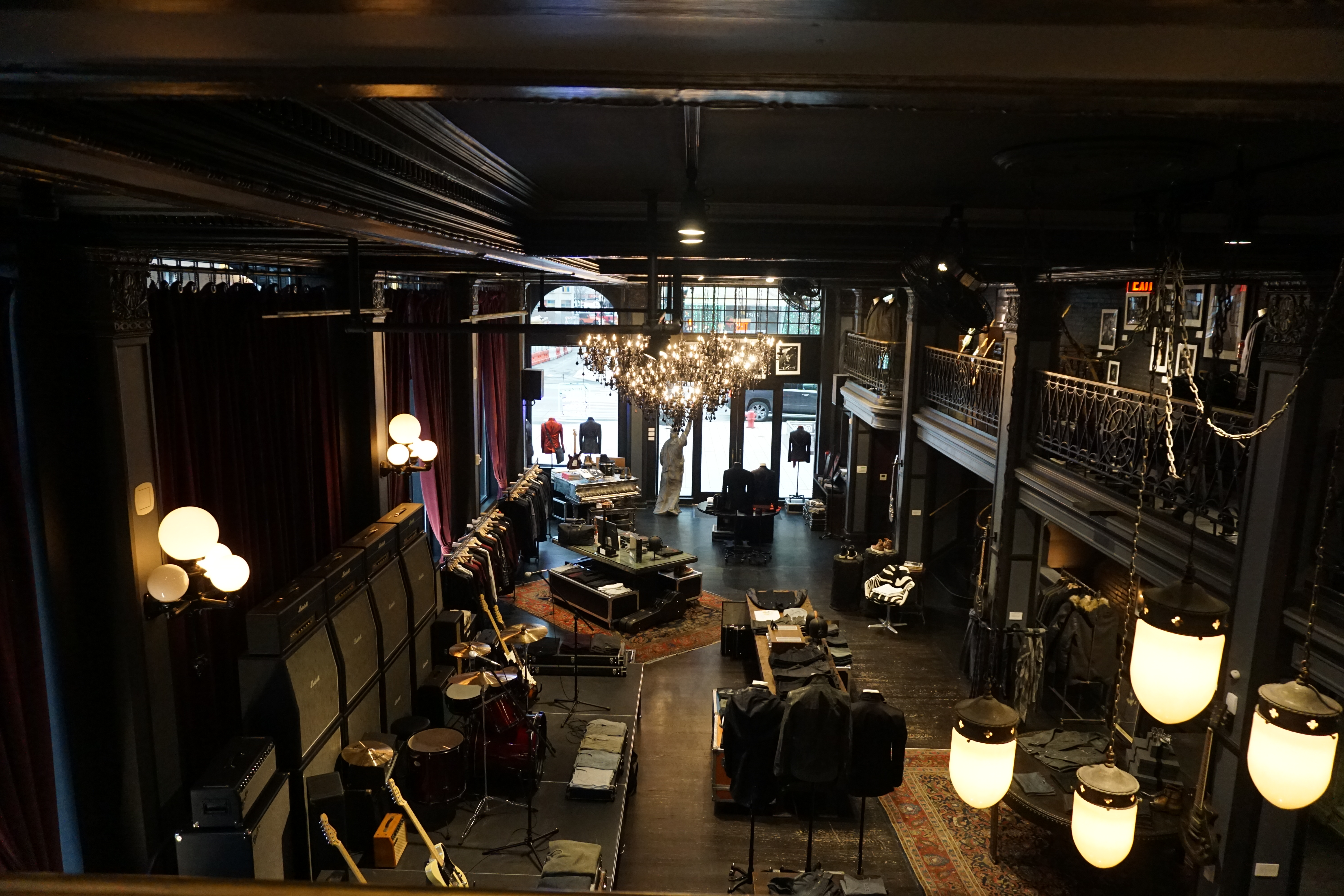 The interior of the John Varvatos store in Detroit, Michigan (United States).